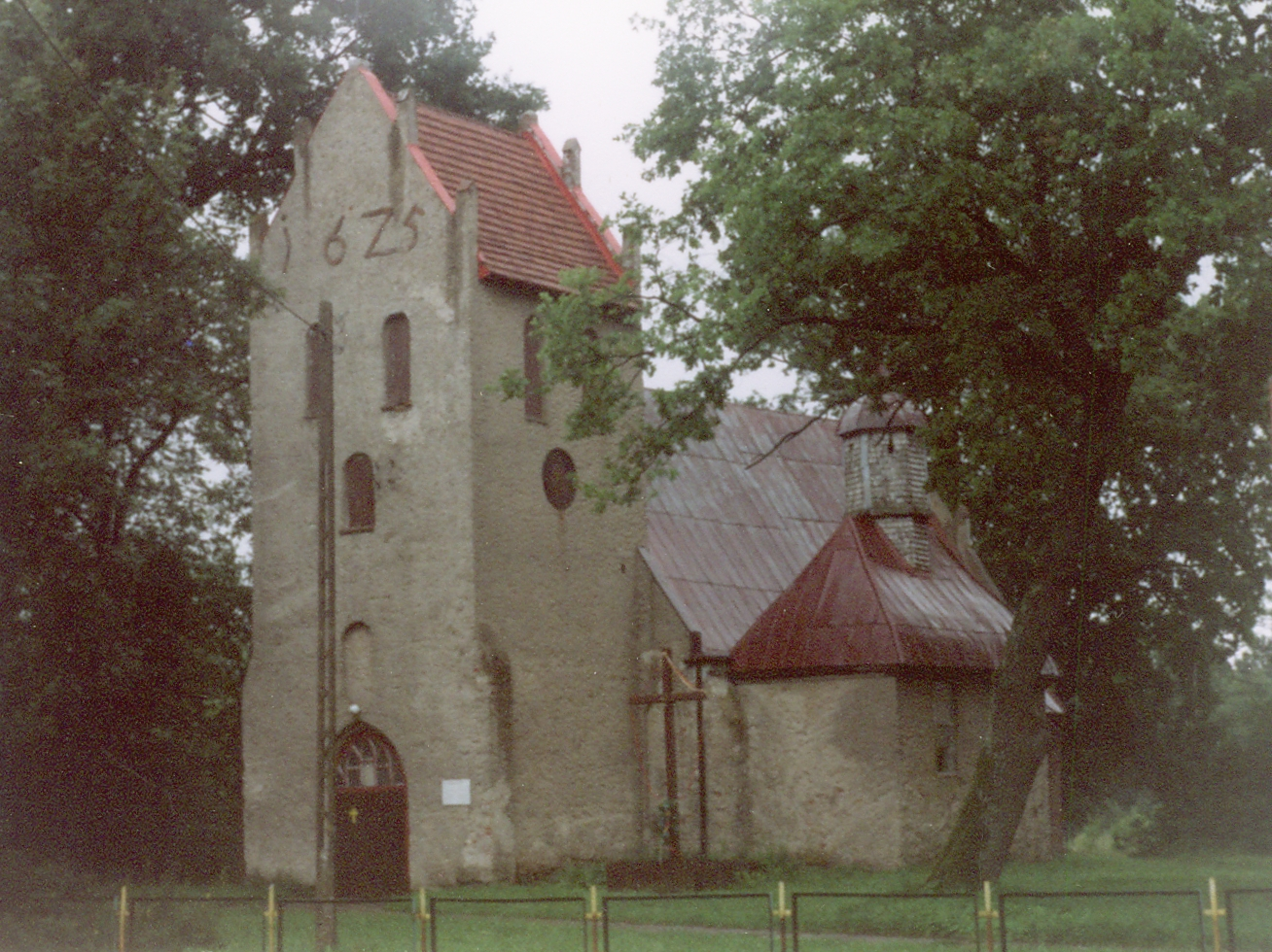 Pieszcz - Exaltation of the Holy Cross church